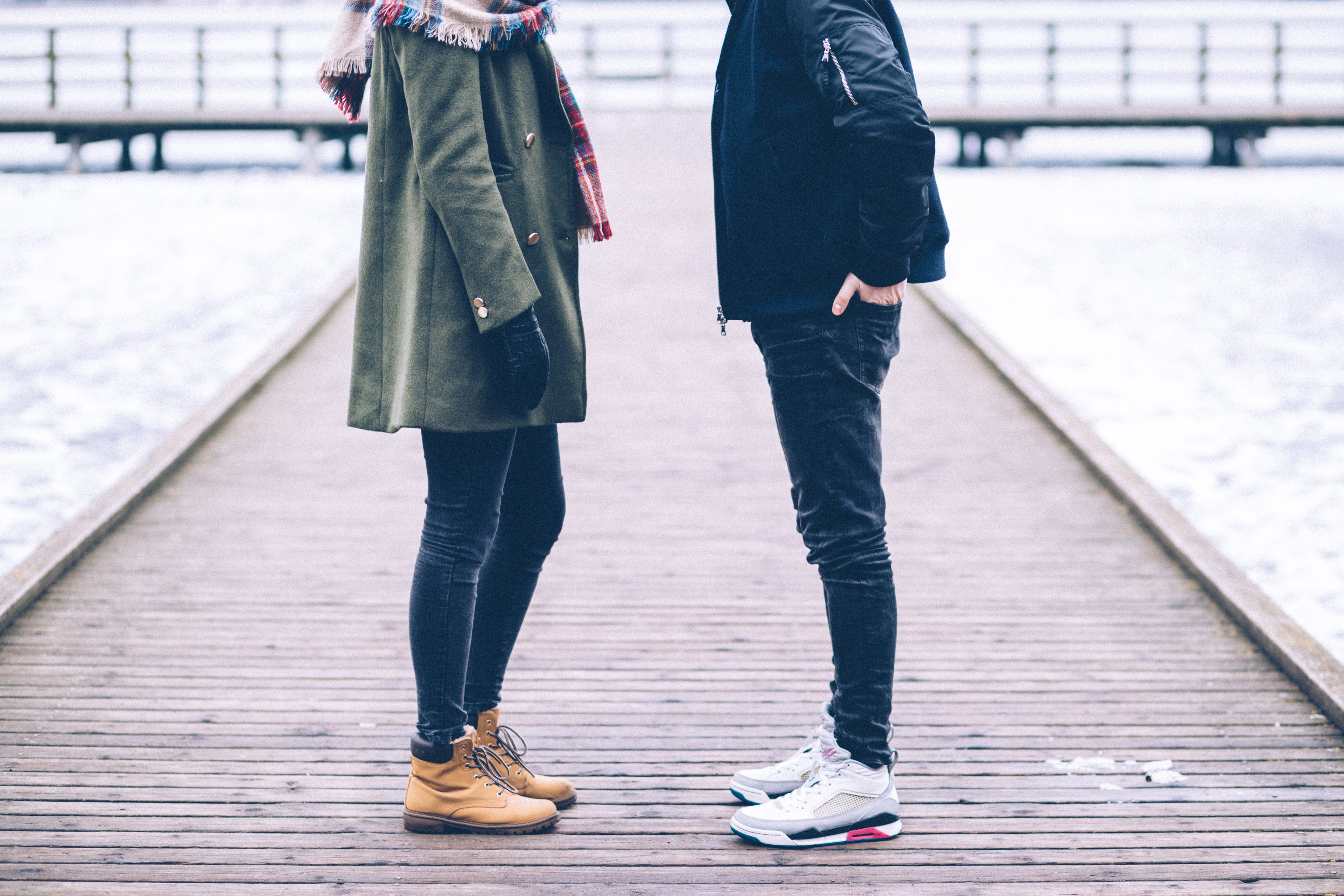 Fashion